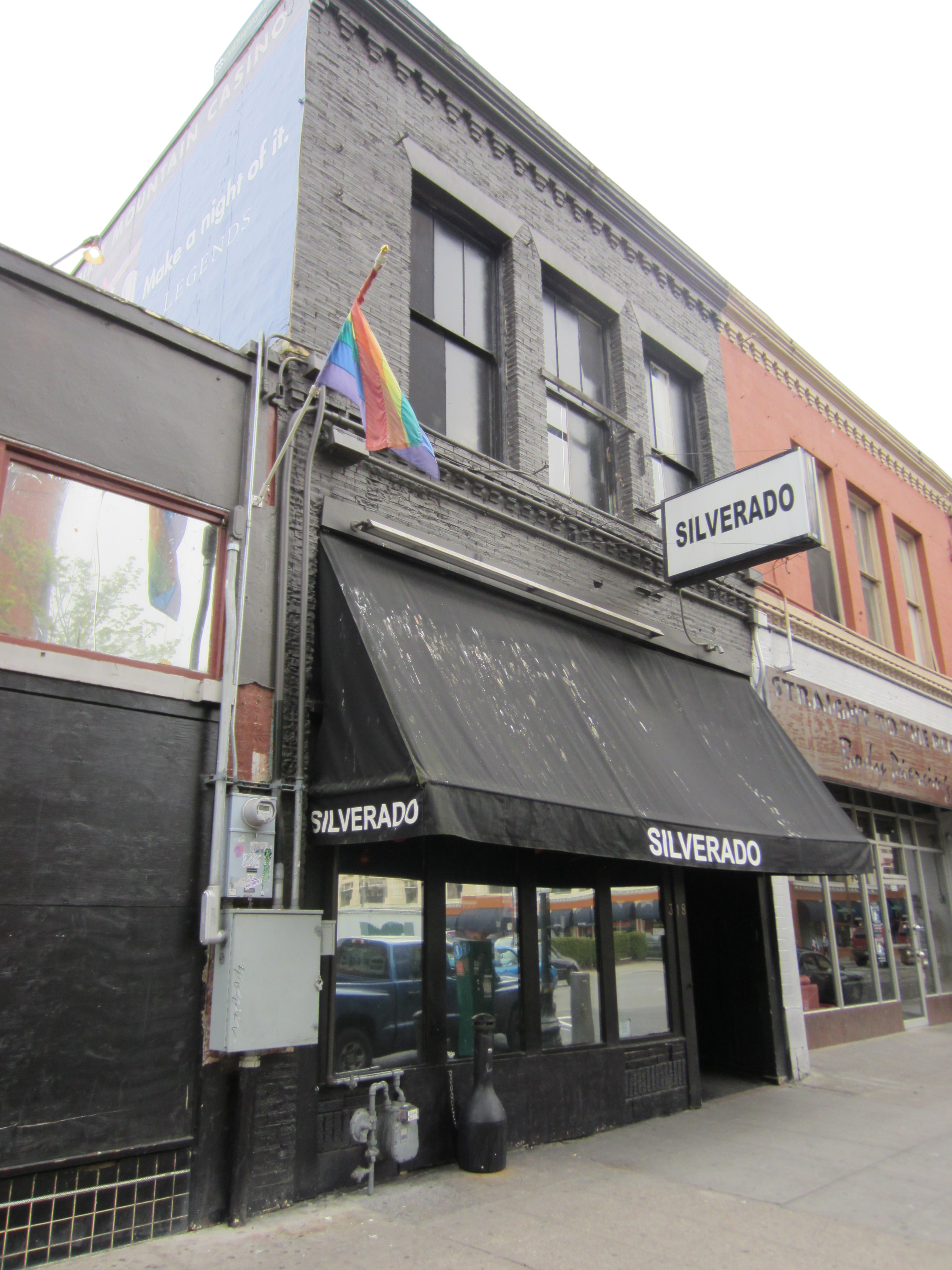 Silverado, Portland, Oregon (2013)